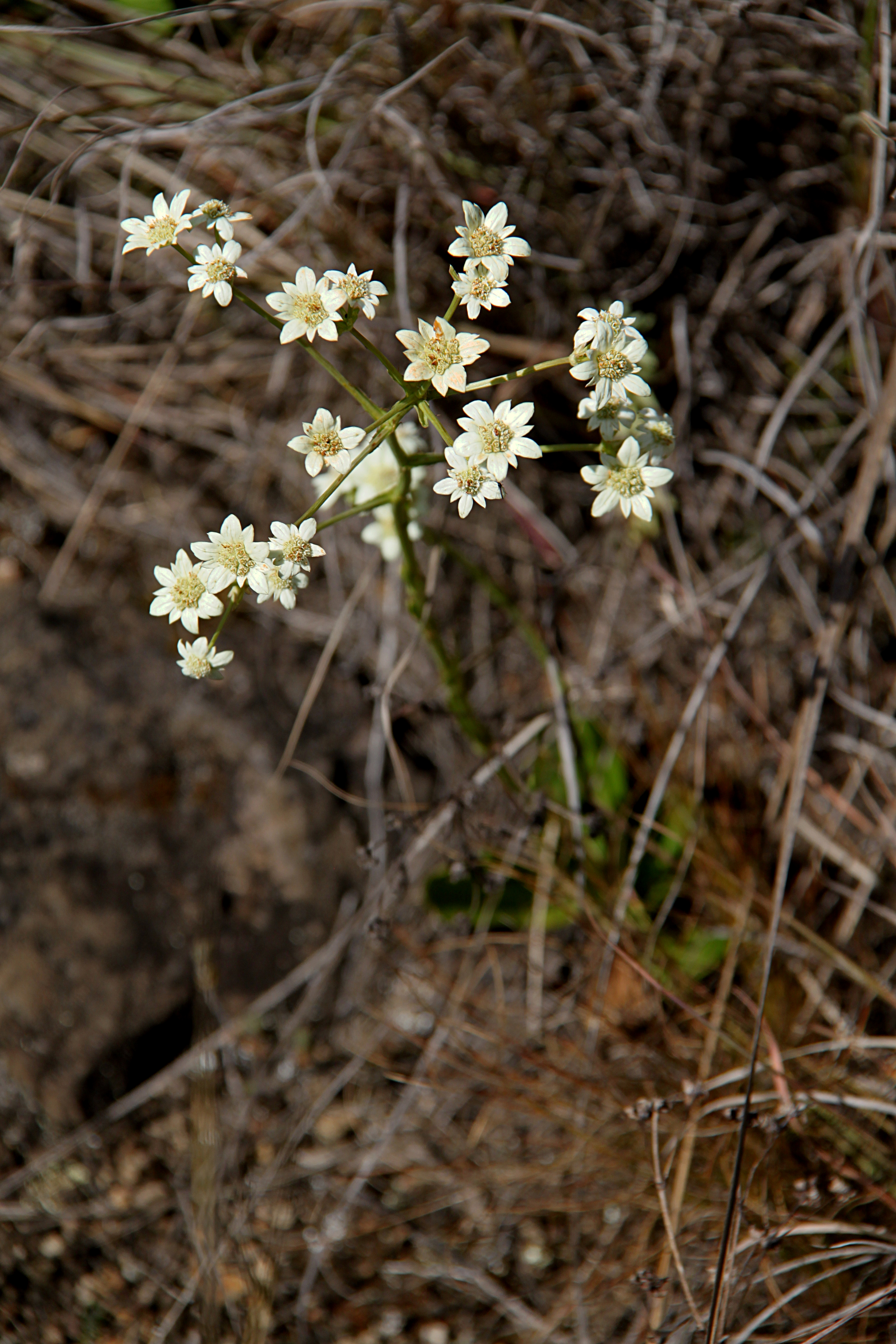 The umbellifer species Alepidea masaica, growing along the Chogoria route, along the Nithi river, Mount Kenya, at approximately 3300 m altitude